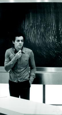 Photo of Giovanni Gallavotti